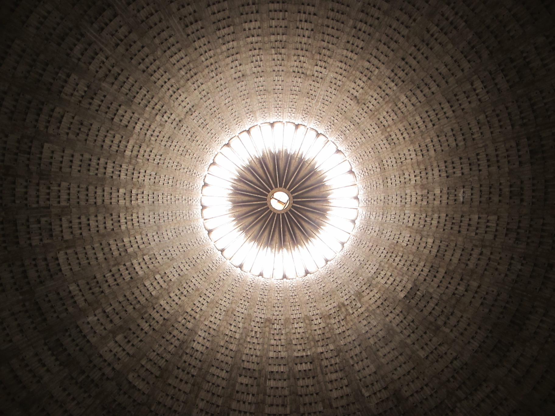 Cathédrale du Sacré-Cœur d'Alger (Sacred Heart Cathedral of Algiers)